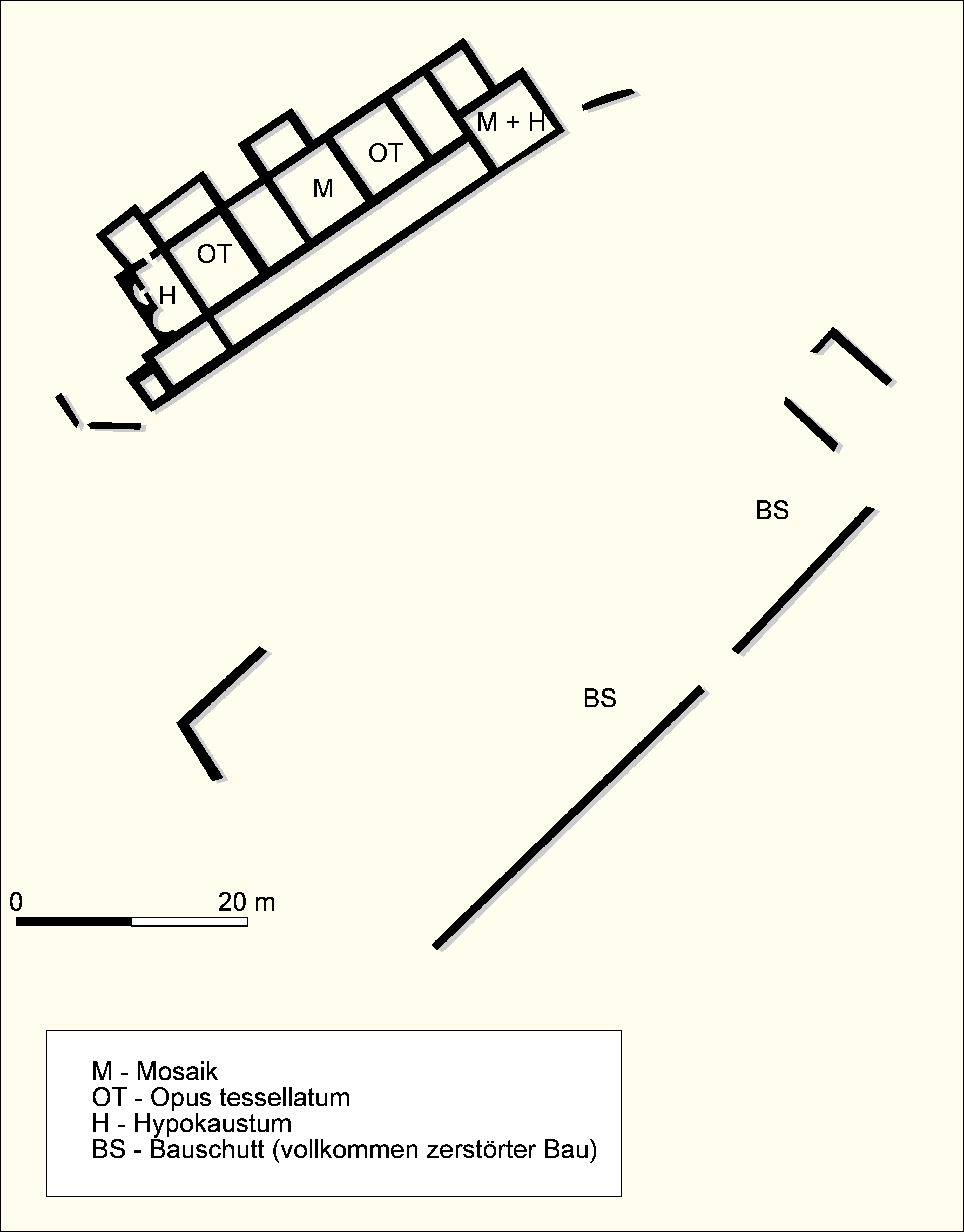 Roman villa, Chilgrove (1), plan, Fourth century